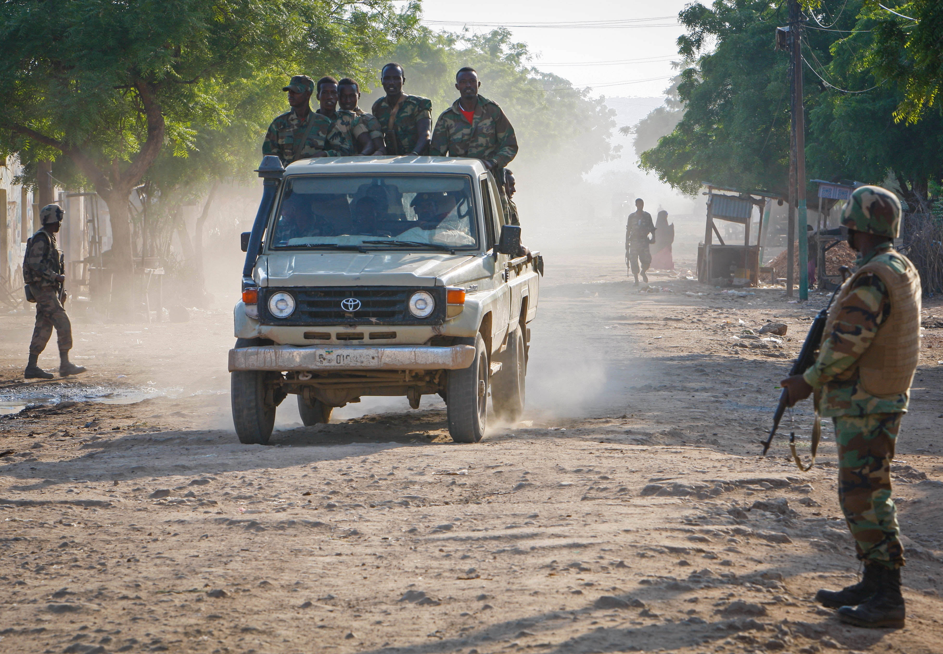 A truck carrying Ethiopian troops kicks up dust as soldiers of the Djiboutian Contingent serving with the African Union Mission in Somalia (AMISOM) stand guard 17 November 2012, on a street in the central Somali town of Belet Weyne in the Hiraan region of Somalia, approx. 300km north west of the capital Mogadishu. Djiboutian AMISOM troops conduct daily, early morning sweeps of areas of the town in the search for improvised explosive devices (IEDs) planted by the Al-Qaeda-afflliated Al Shabaab extremist group during the night before. AMSIOM troops have this week begun increasing their forces in Belet Weyne since first deploying there in September after the town liberated from Al Shabaab in December 2011 by a combined force of the Ethiopian Army and Somali government forces. AU-UN IST PHOTO / STUART PRICE.